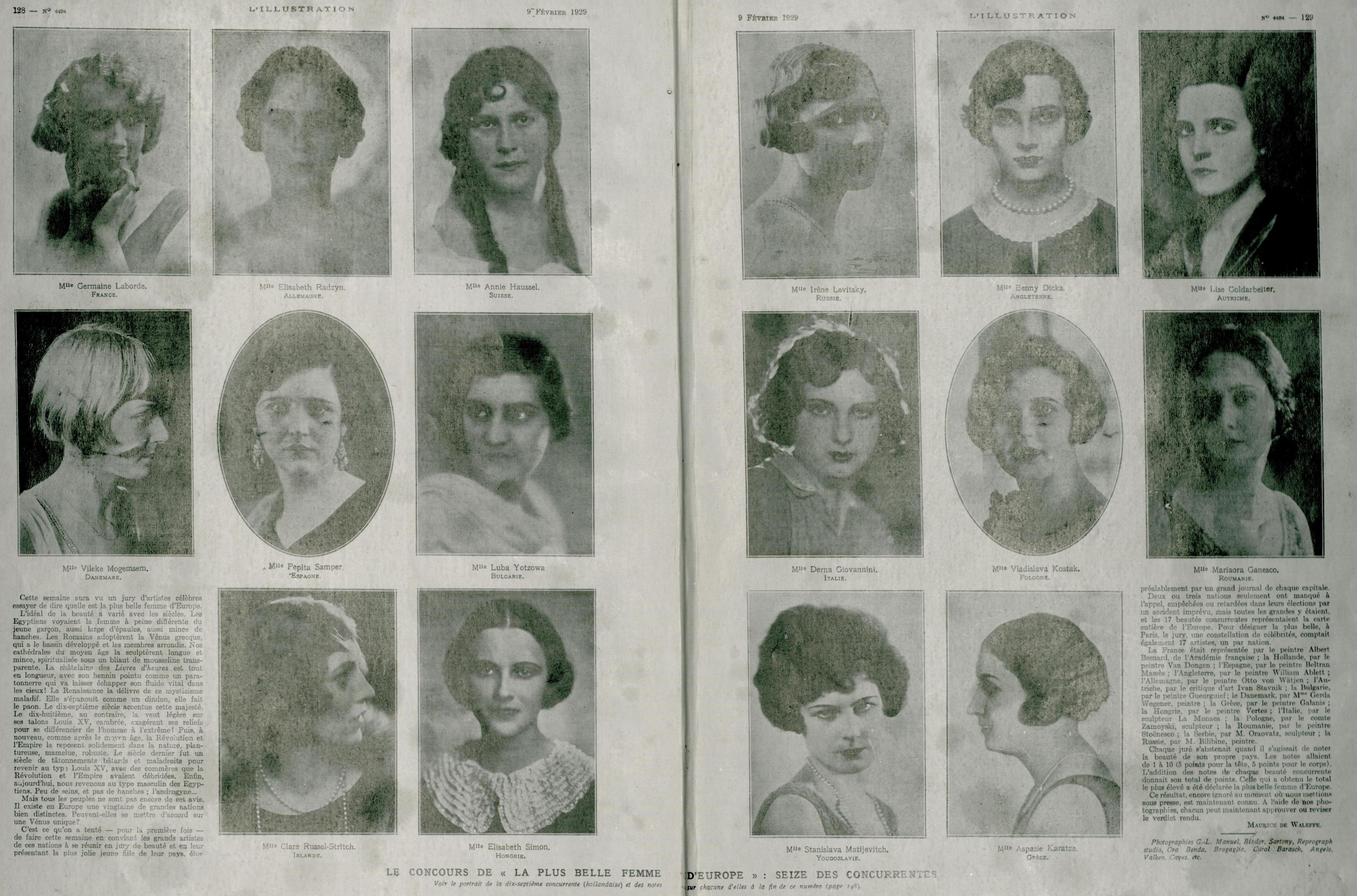 19290209 L'Illustration